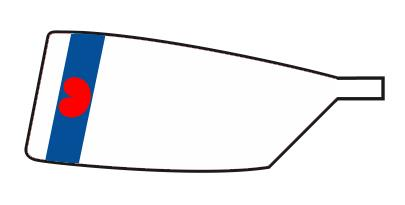 Oar of Aengwirden